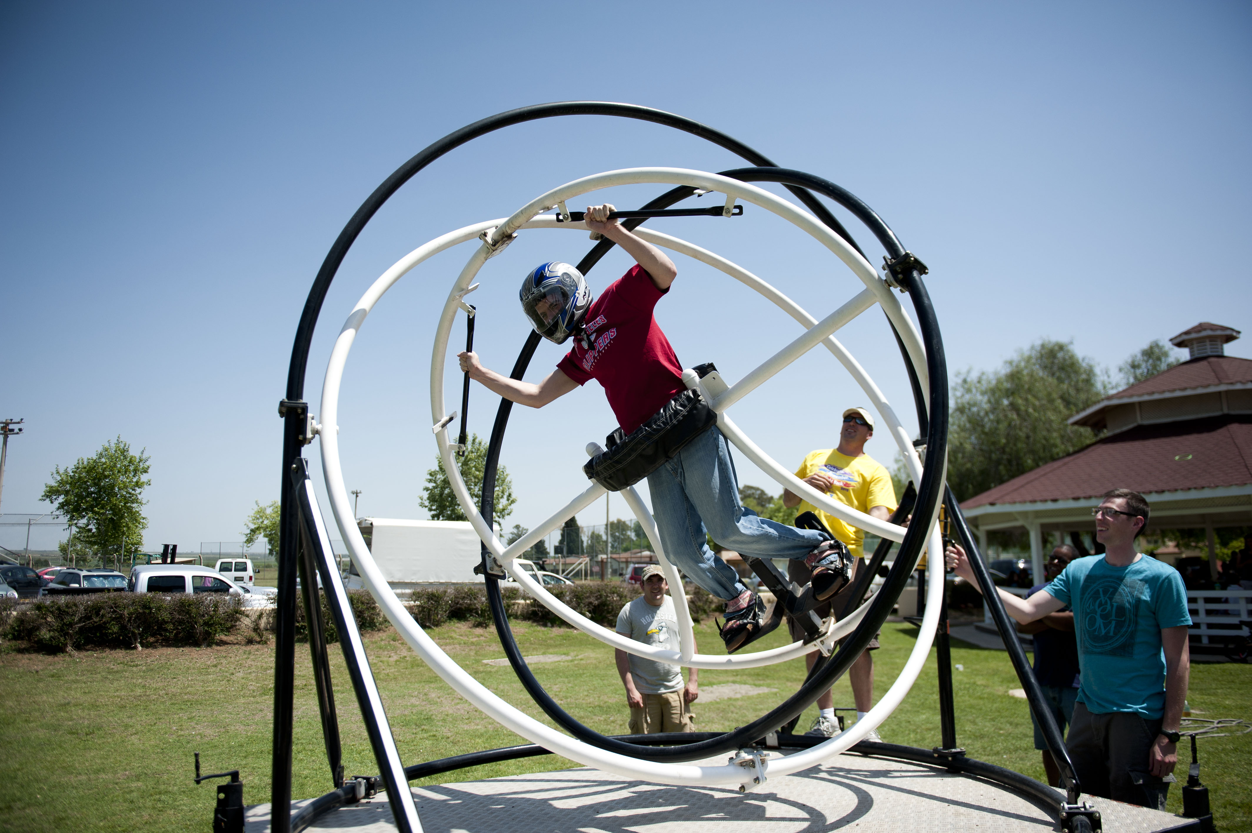 Senior Airman William O'Brien, 39th Air Base Wing public affairs, spins on the gyroscope run by the 39th Communications Squadron during the Spring Fling April 28, 2012, at Incirlik Air Base, Turkey. The event offered members of Team Incirlik a chance to enjoy warmer weather while taking part in various fair-style festivities.